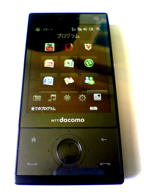 HT-02A